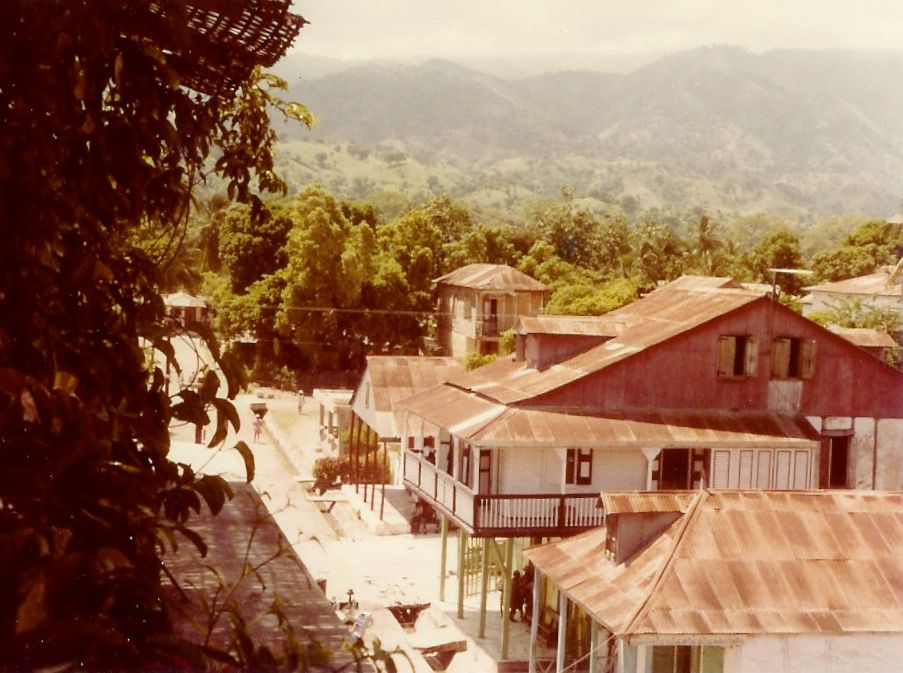 A view from Olivier Coquelin's hotel, Le Relais de L'Empereur in Petit-Goâve, Haiti in 1981.